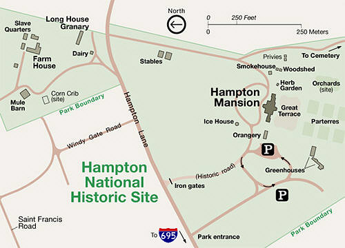 Map of Hampton National Historic Site, Towson.